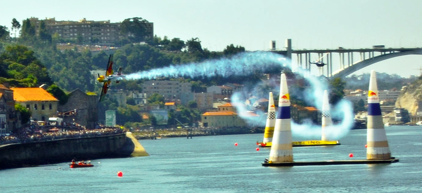 Red Bull Air Race 2007